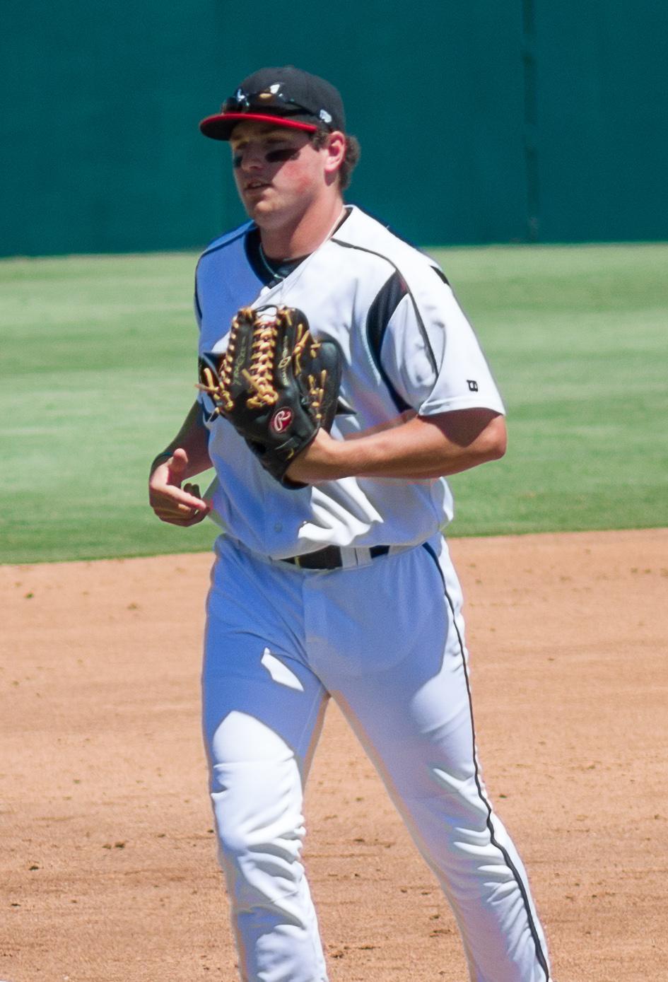 San Diego Padres minor league player Hunter Renfroe playing for the Lake Elsinore Storm 2014